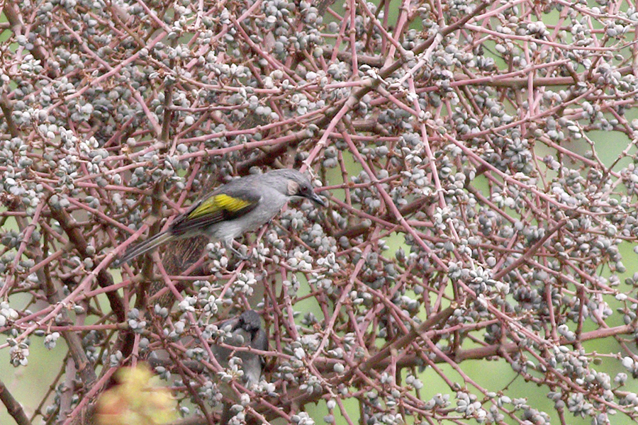 Ashy Bulbul from bird photography tour to Eaglenest wildlife sanctuary